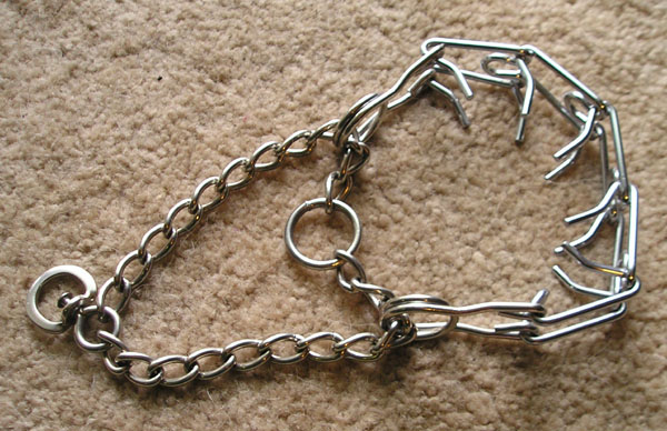 prong collar. Dec '04